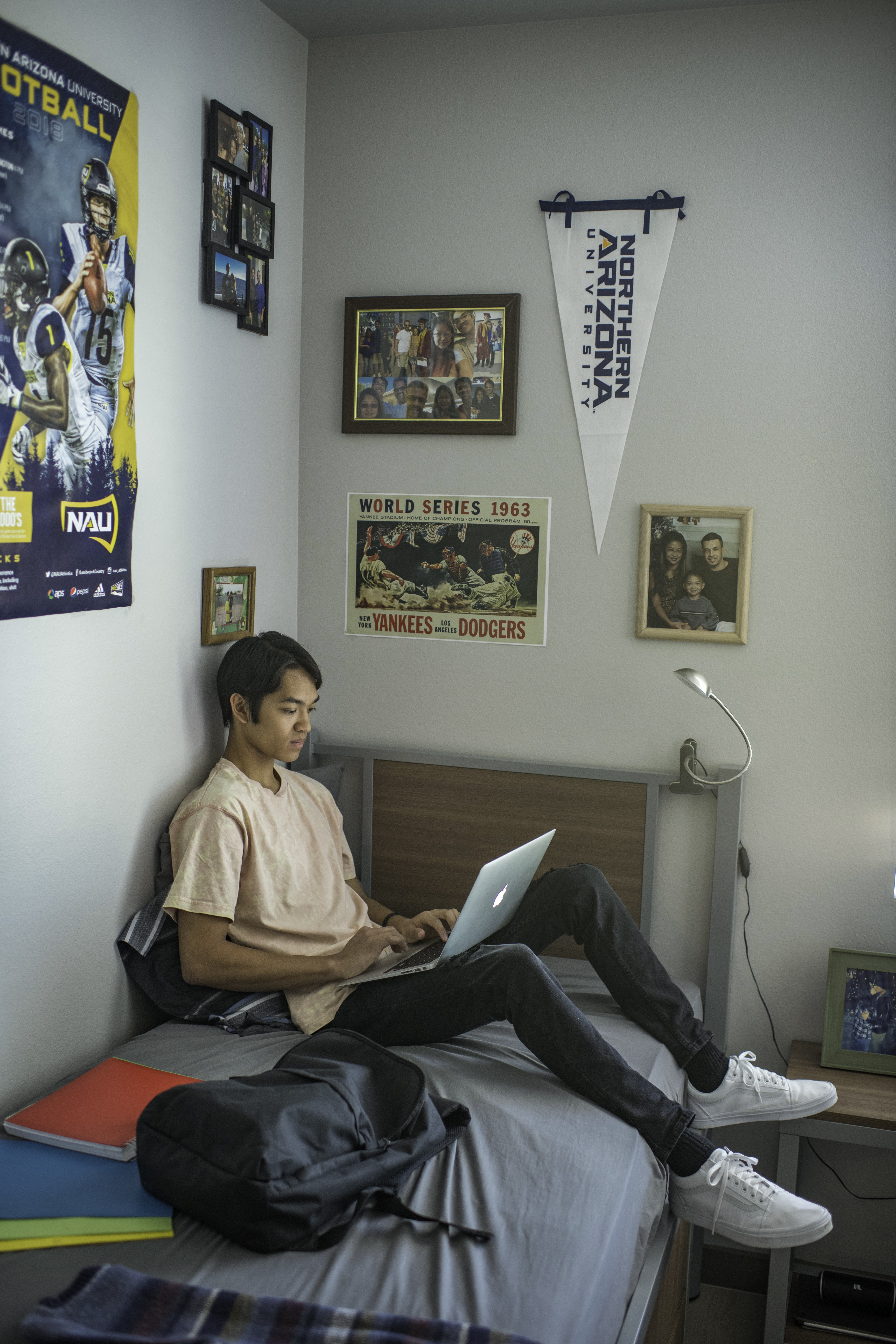 Northern Arizona University student in the residential section of the Honors College building.